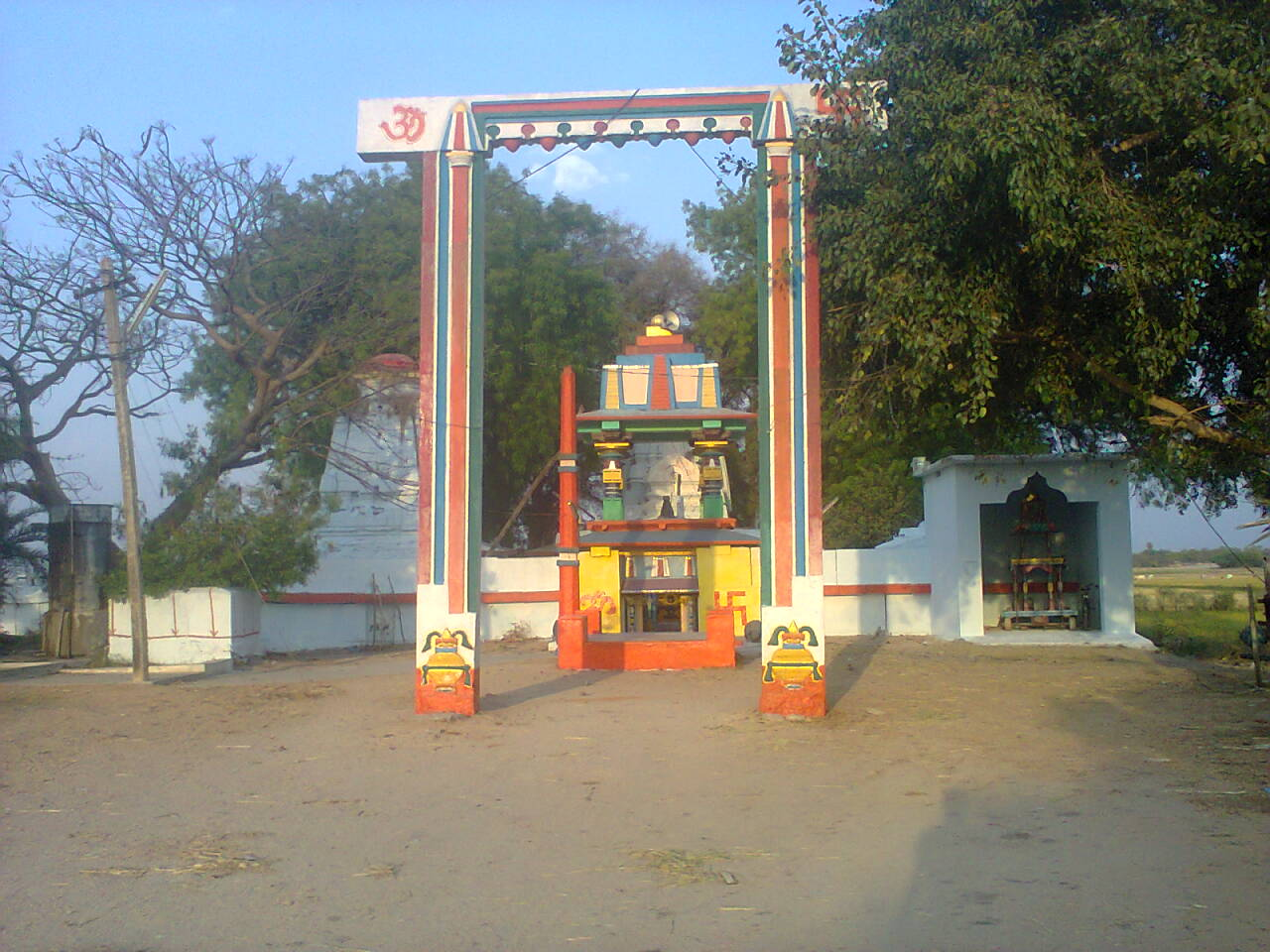 శ్రీ రామలింగేశ్వర స్వామి దేవాలయం